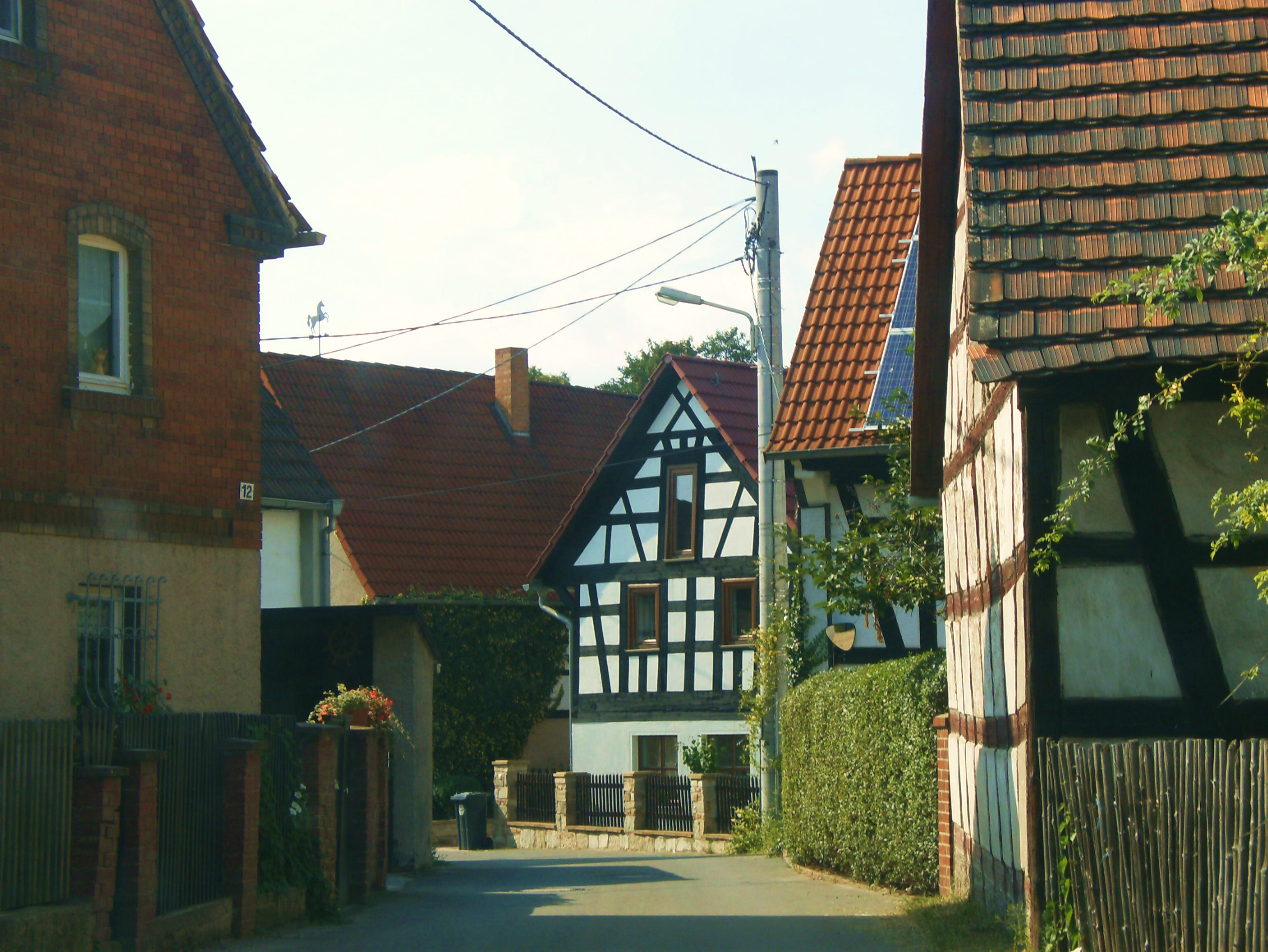 Gera Kleinaga, village part "Froschweide" (frog meadow).